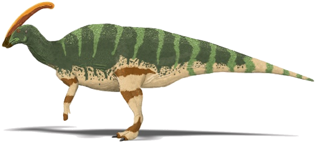 Parasaurolophus walkeri. Reprinted from original, previously-unpublished artwork by Leandra Walters under a CC BY license, with permission from Leandra Walters, original copyright 2015.